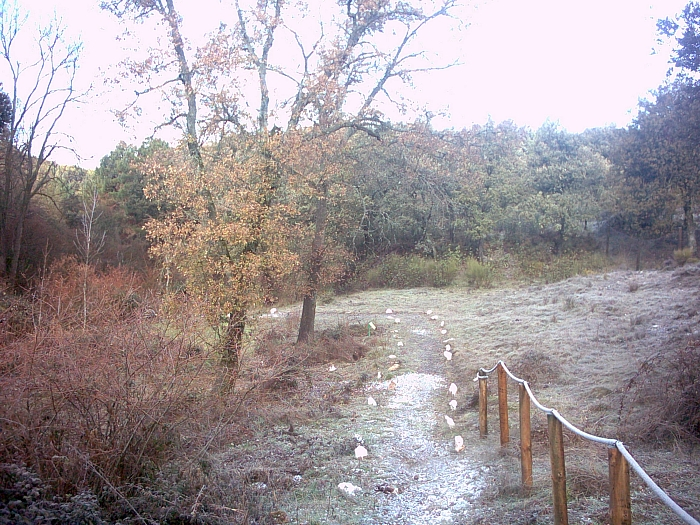 A work release by Francisco Javier Martin Lopez, Quercus faginea, in Arboretum "La Alfaguara" , Sierra de Huétor, Alfacar, province of Granada (Spain) 2006, January 7. A free donation to Wikipedia.